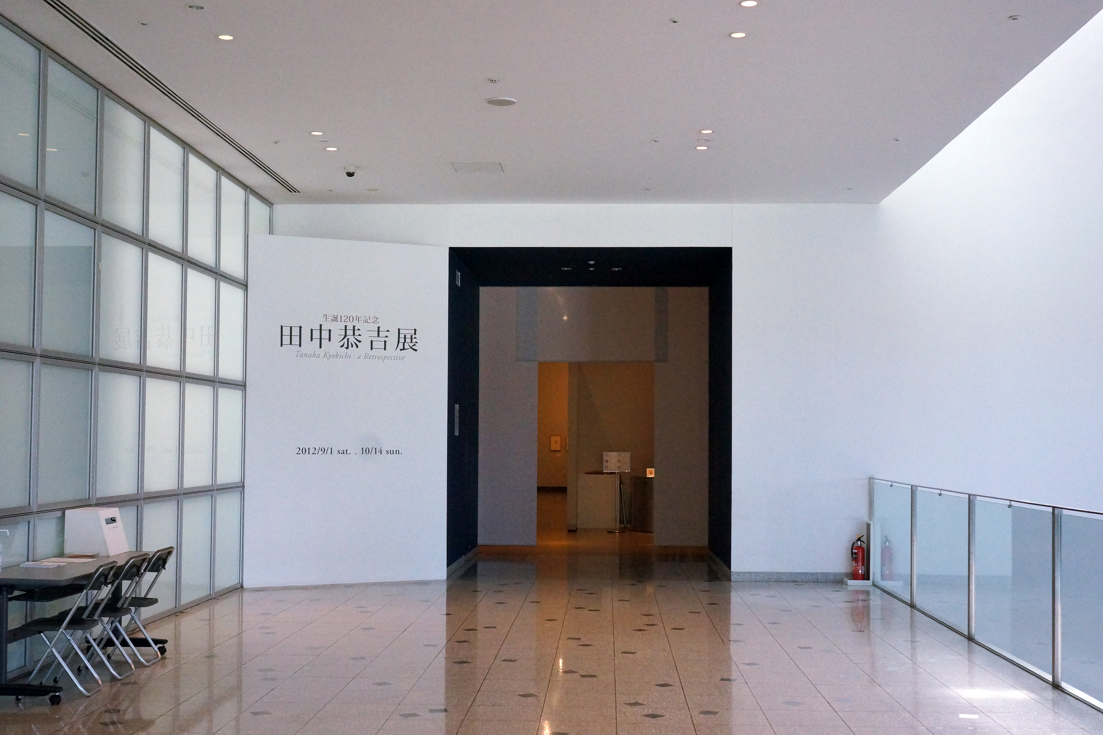 The Museum of Modern Art, Wakayama in Wakayama, Wakayama prefecture, Japan.